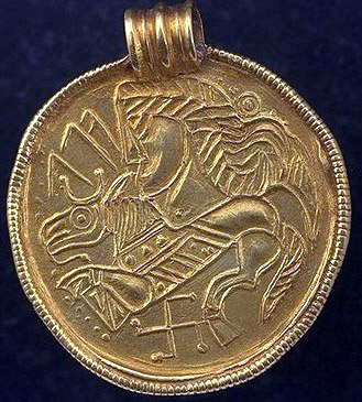 Migration period golden bracteate of Type C with runic inscription and swastika from Djupbrunns, Hogrän parish, Gotland, Sweden.